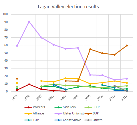 Lagan Valley election results